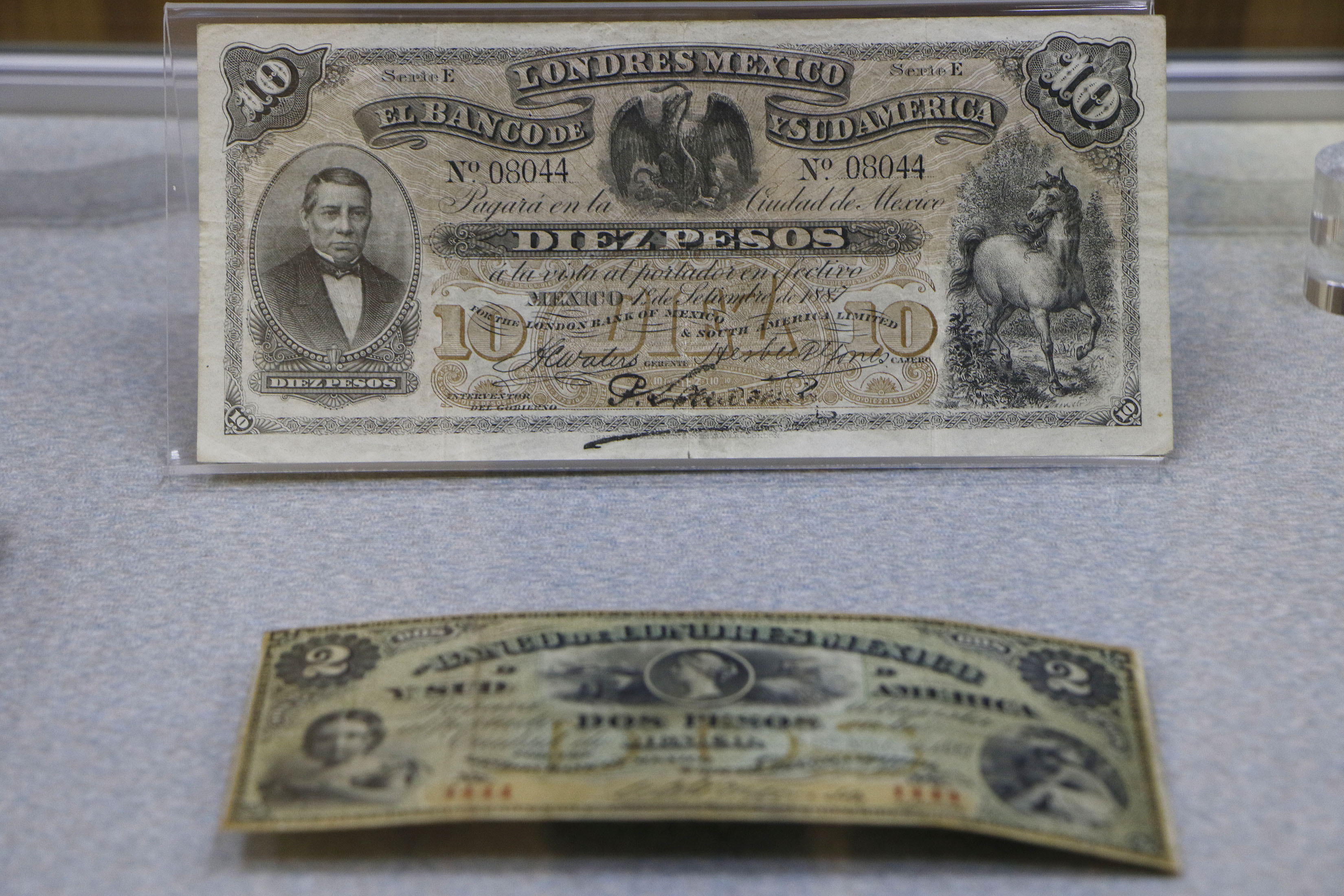 A ten Pesos banknote of The London Bank of Mexico And South America at the National Numismatic Museum, Mexico City. Thursday, 6 February 2020. Picture by Tania Victoria / Secretaria de Cultura de la Ciudad de Mexico.